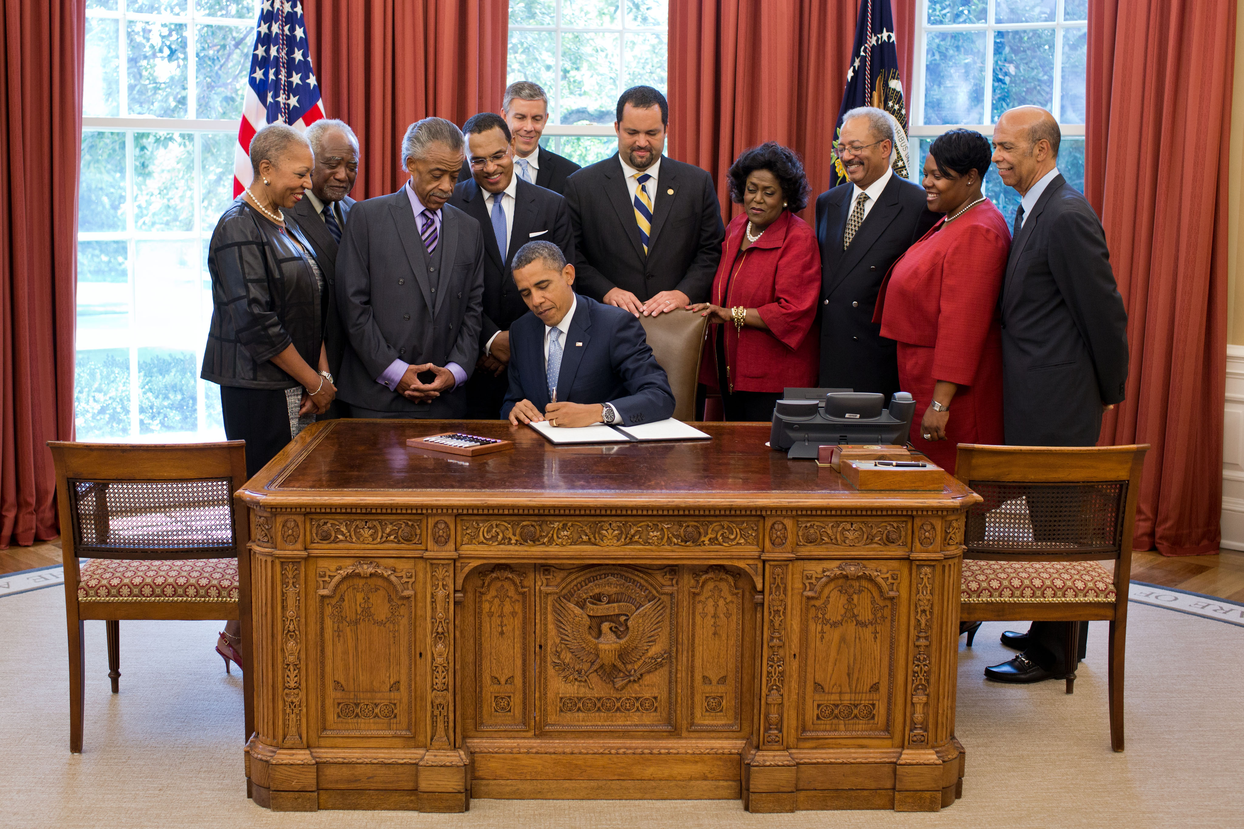 President Barack Obama signs the White House Initiative on Educational Excellence for African Americans Executive Order in the Oval Office, July 26, 2012. Standing behind the President, from left, are: Patricia Coulter, CEO National Urban League of Philadelphia; Rep. Danny Davis, D- Ill.; Reverend Al Sharpton; Dr. Freeman Hrabowski, President of University of Maryland Baltimore College; Secretary of Education Arne Duncan; Benjamin Jealous, President of the NAACP; Ingrid Saunders- Jones, Chair of the National Council of Negro Women; Rep. Chaka Fattah, D-Pa.; Kaya Henderson, Chancellor of DC Public Schools; and Michael Lomax, President of the United Negro College Fund. (Official White House Photo by Pete Souza) This official White House photograph is in the public domain from a copyright perspective, so while restrictions such as personality or privacy rights may apply, in general, manipulations are allowed.